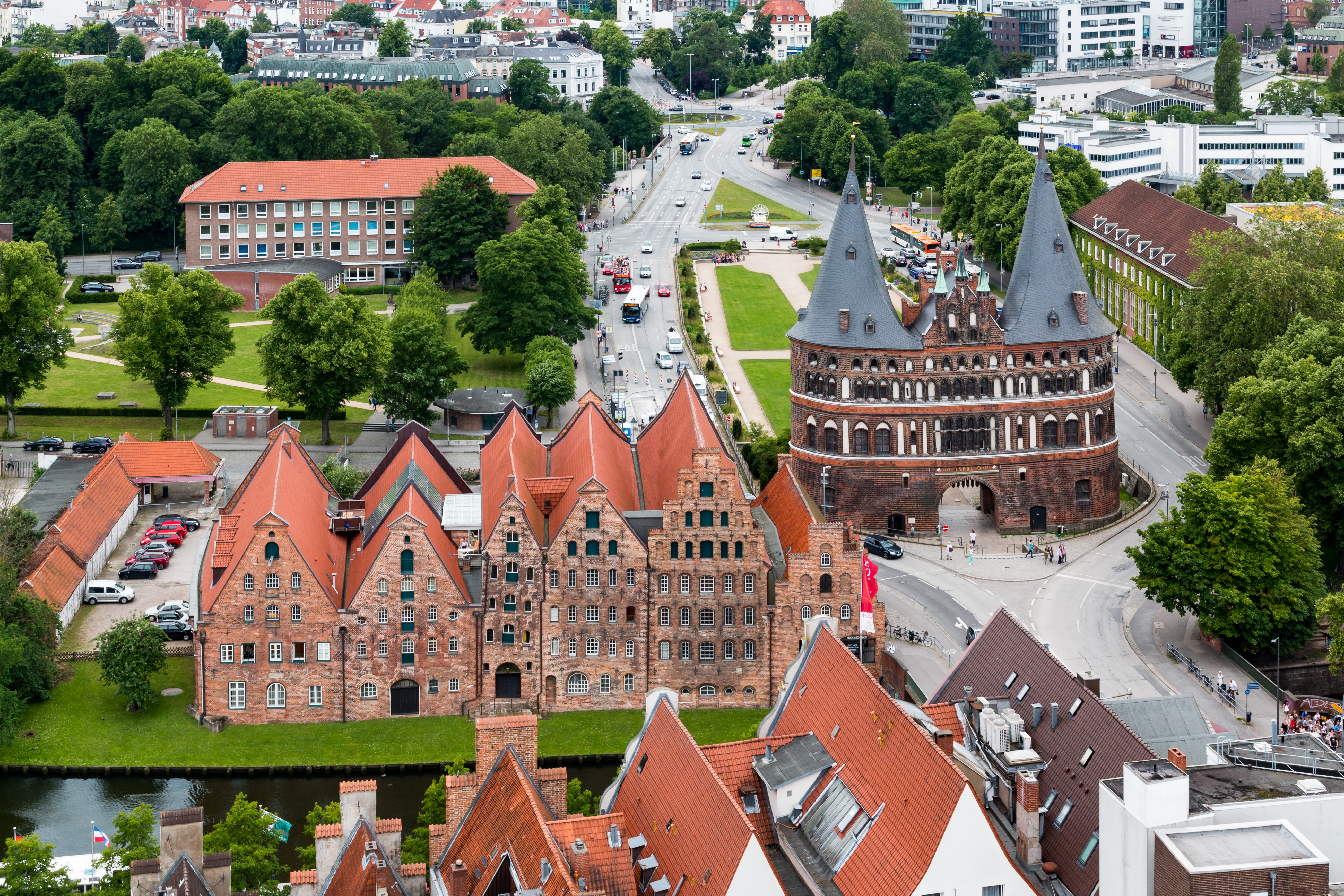 Holstentor and Salzspeicher, Lübeck, Schleswig-Holstein, Germany This is a photograph of an architectural monument.It is on the list of cultural monuments of Lübeck